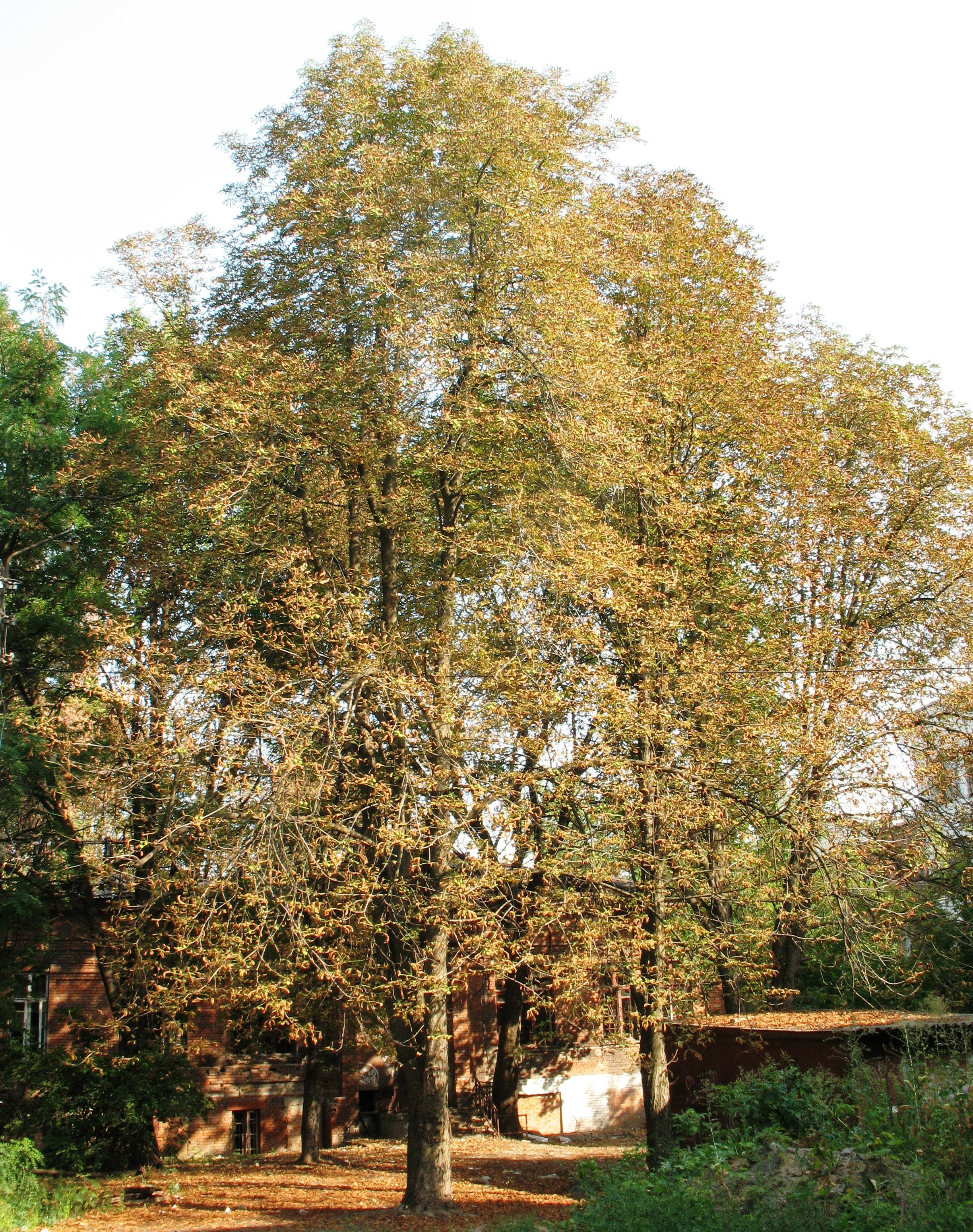 Drought in Kharkov City. 2010 Northern Hemisphere summer heat. August 7, 2010